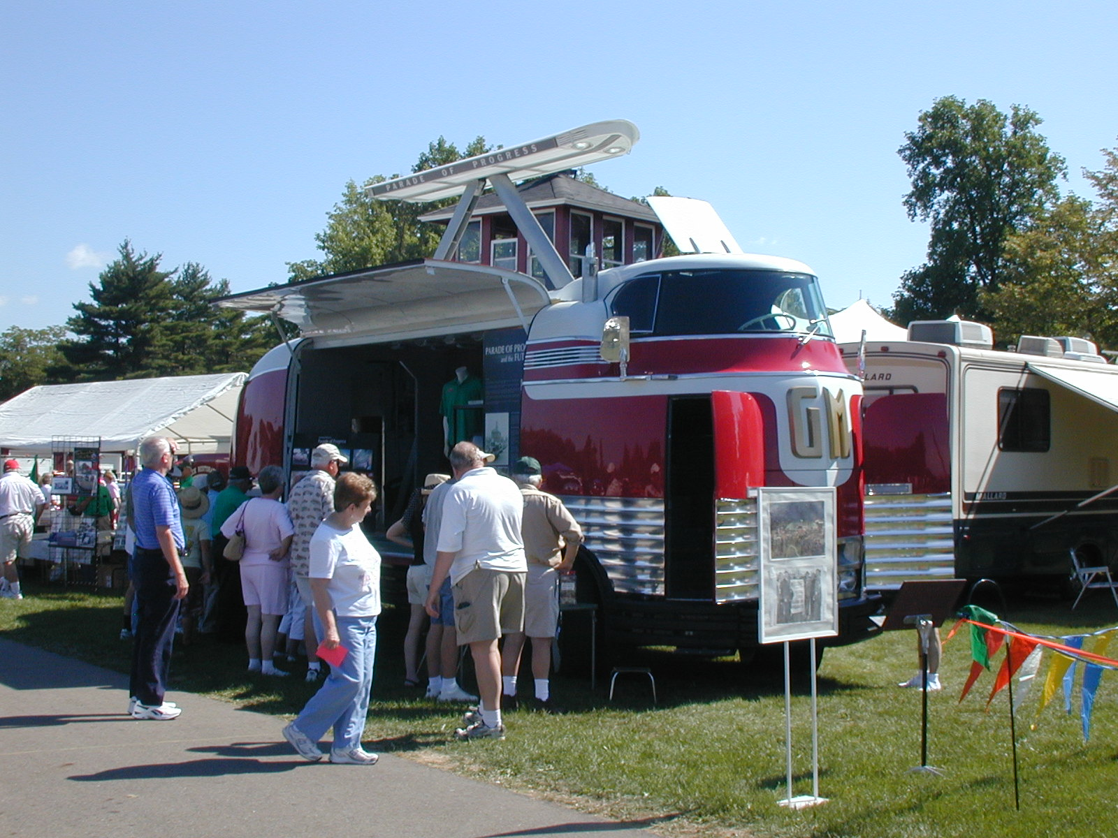 Taken at the Gilmore Car Museum, Hickory Corners, Michigan, during the Red Barn Extravaganza car show 8/6/2005. This is a restored GM Futurliner, from 1953. It was one of 12 used to present General Motor's Futurama around the country. For more info about this unit, it's restoration and it's history, check out That large panel at the top that looks like a surfboard on an inverted V is the light panel that could provide illumination for the vehicle and its exhibits.